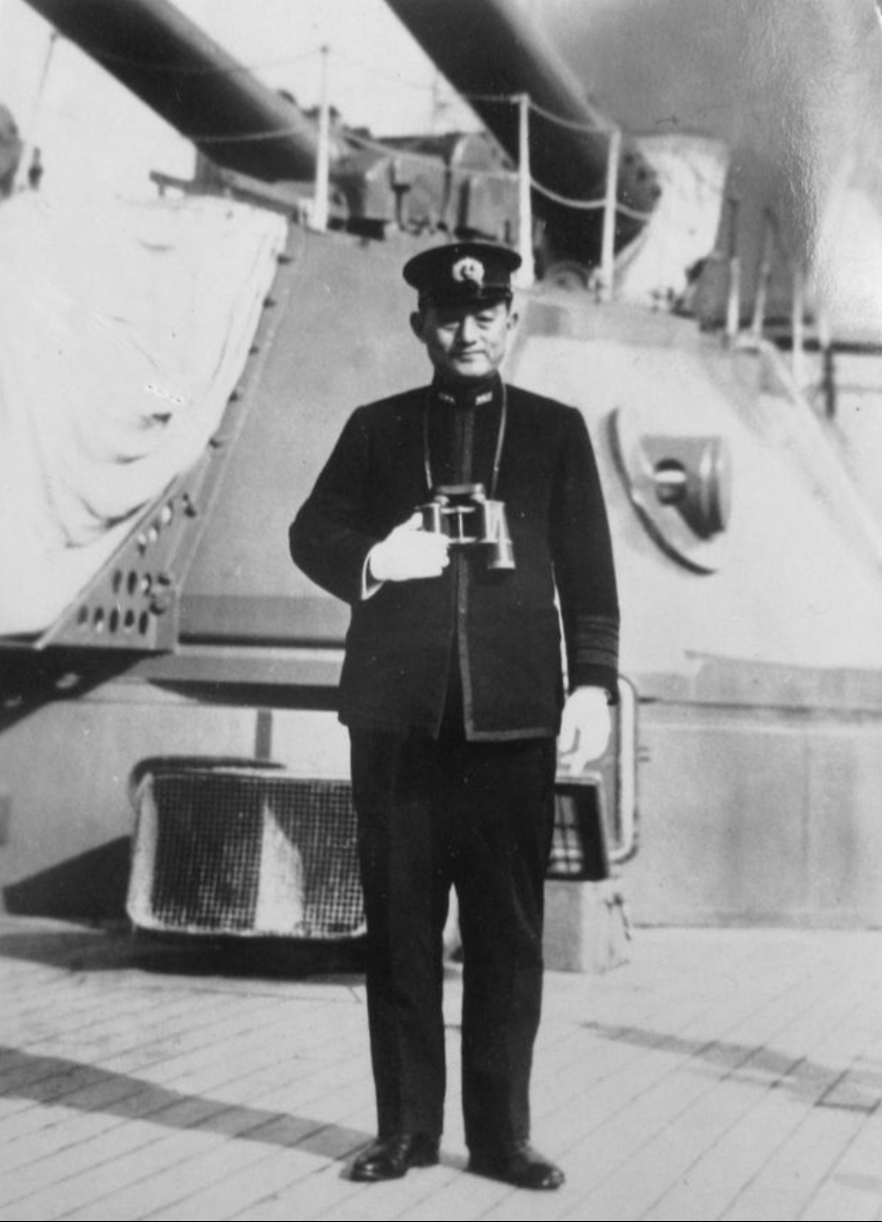 Yonai Mitsumasa